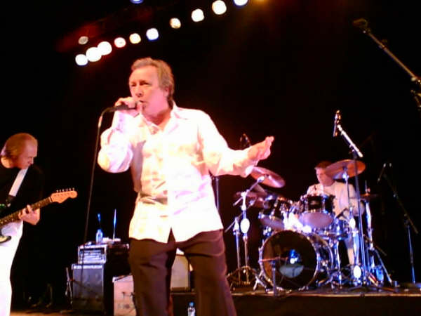 Richard Gower formerly of Racey performing in Denmark 2006